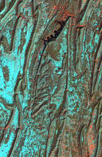 L4-5 TM Landsat image LT50160322010014EDC00, taken 2010/01/14. Cropped to show Broad Top in south-central Pennsylvania.